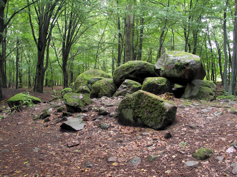 Borkowo - megalith grave